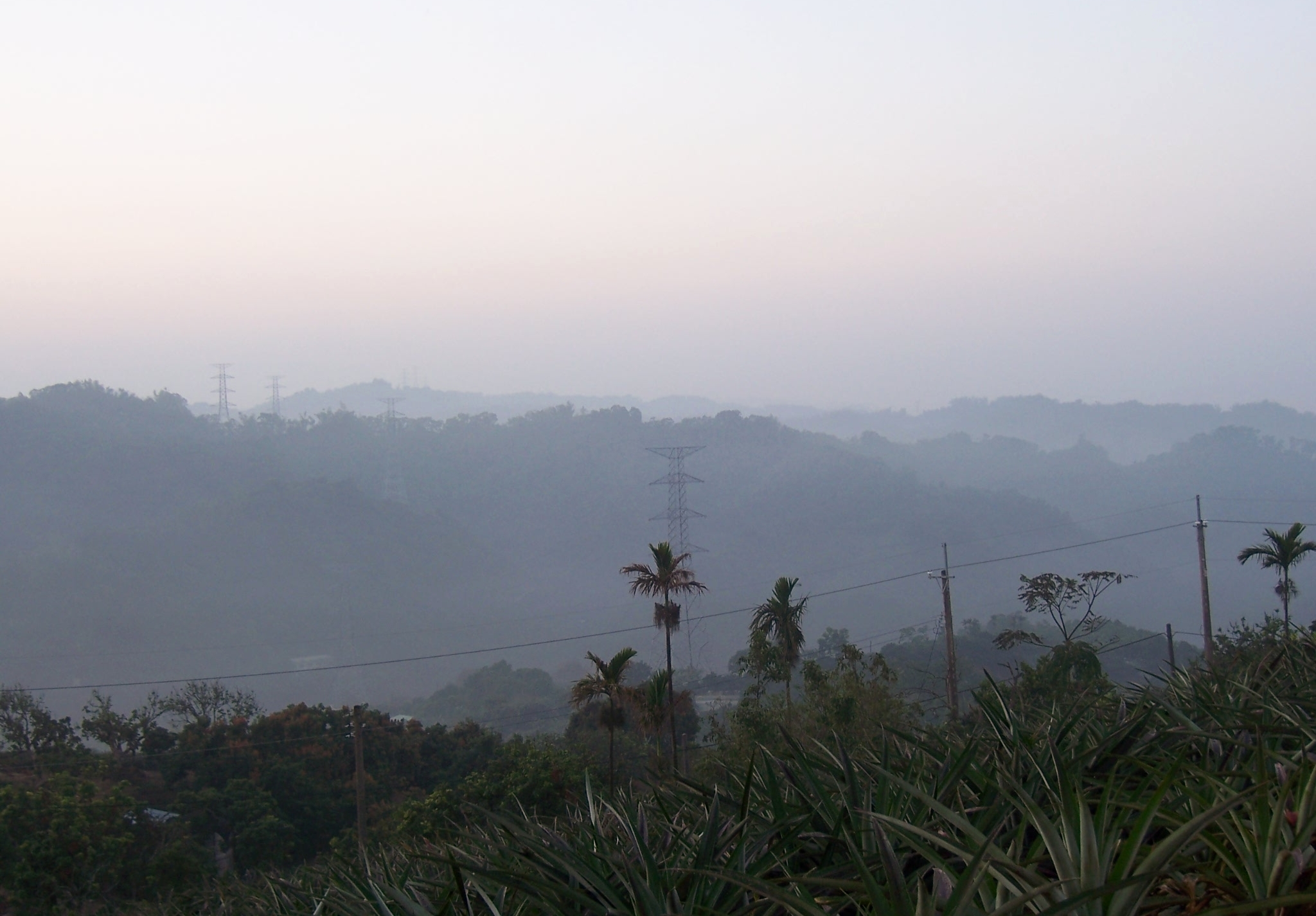 Laiyuan Village,Wufong Township,Taichung County,Taiwan(R.O.C.)